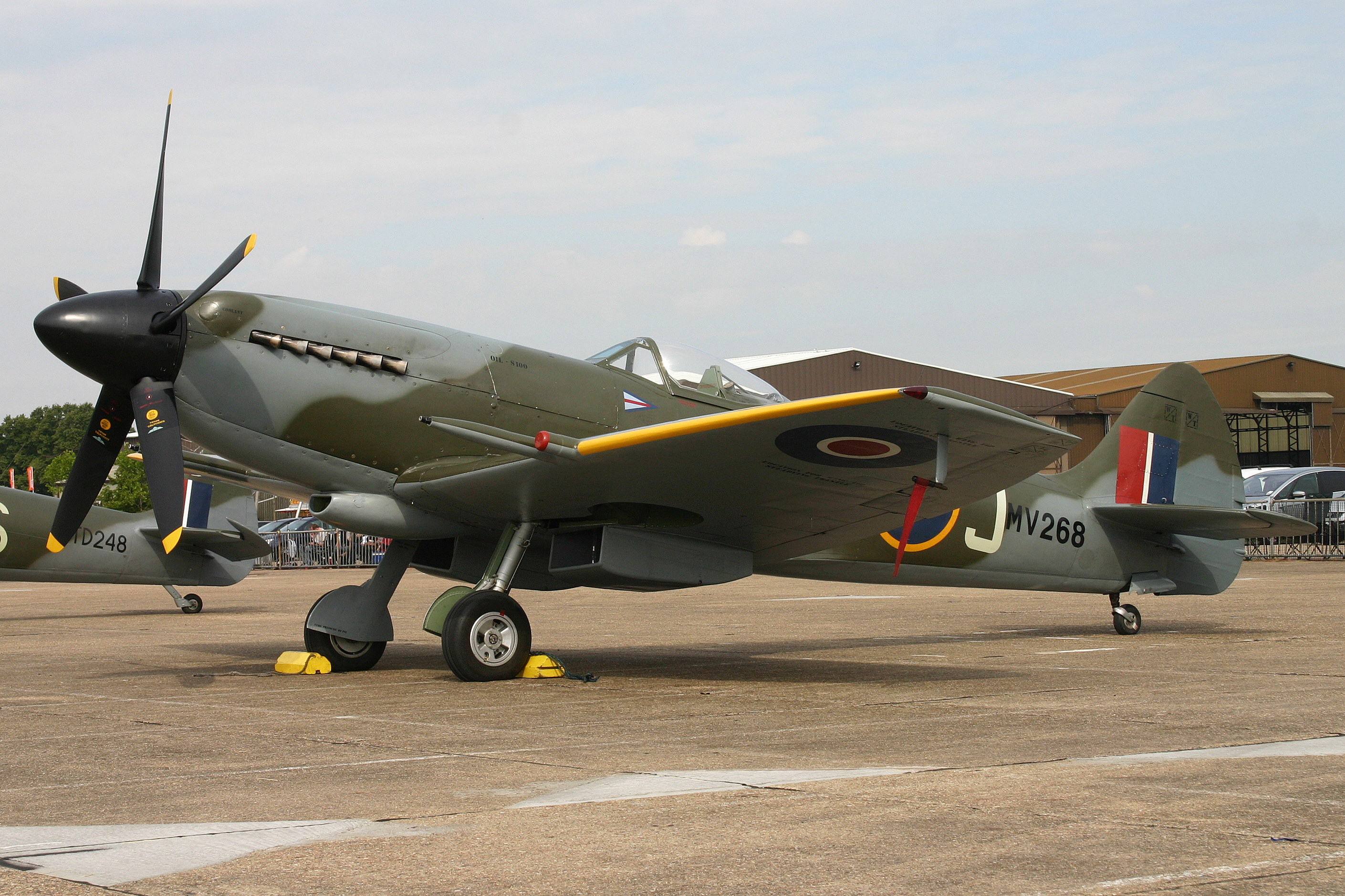 Really 'MV293' msn 6S/649205. Owned and operated by The Fighter Collection and Duxford based. Parked on paved flightline. Flying Legends 2011. Duxford, 10-7-2011